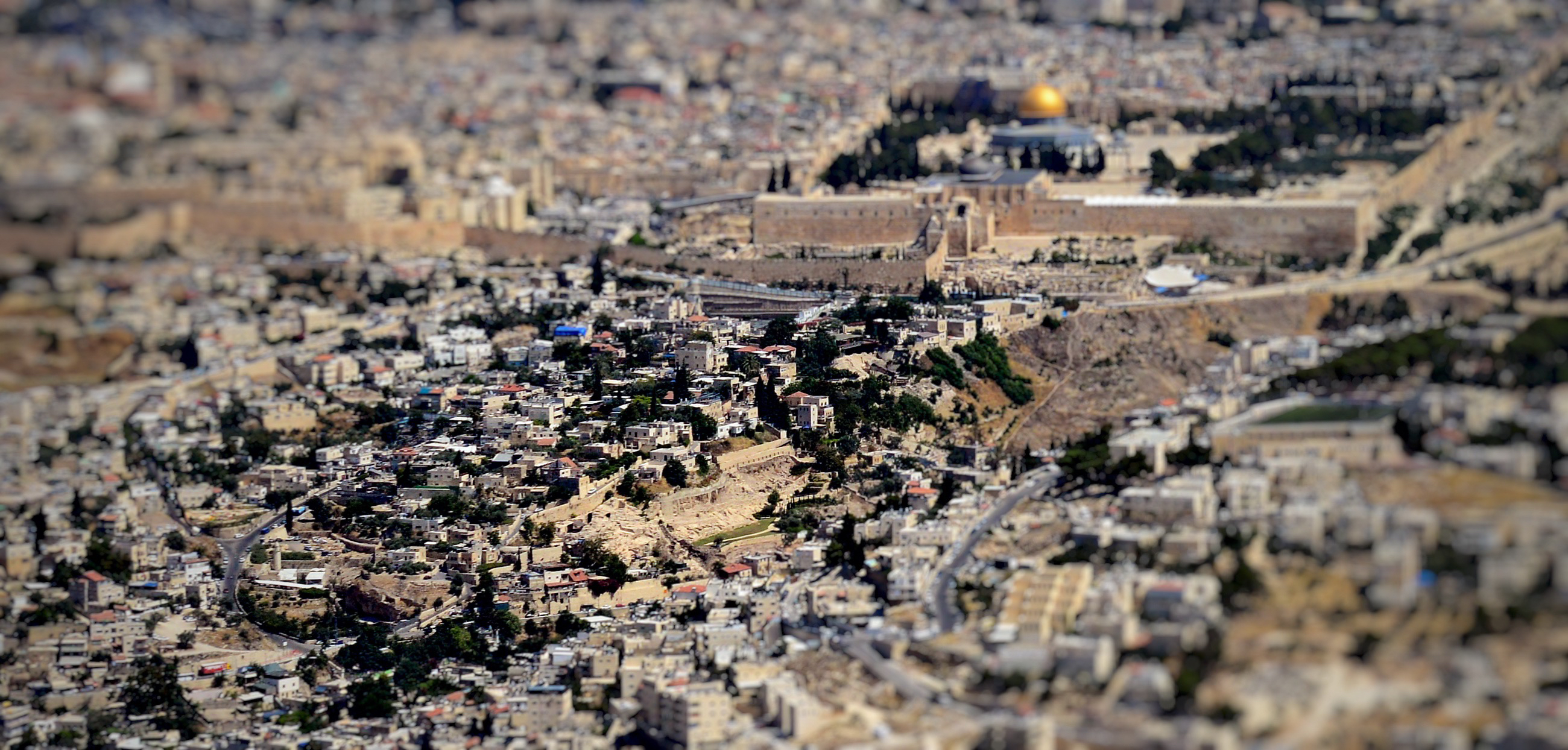 City of David, Wadi Hilweh – Palestinian village, Israeli settlement, Archaeological site